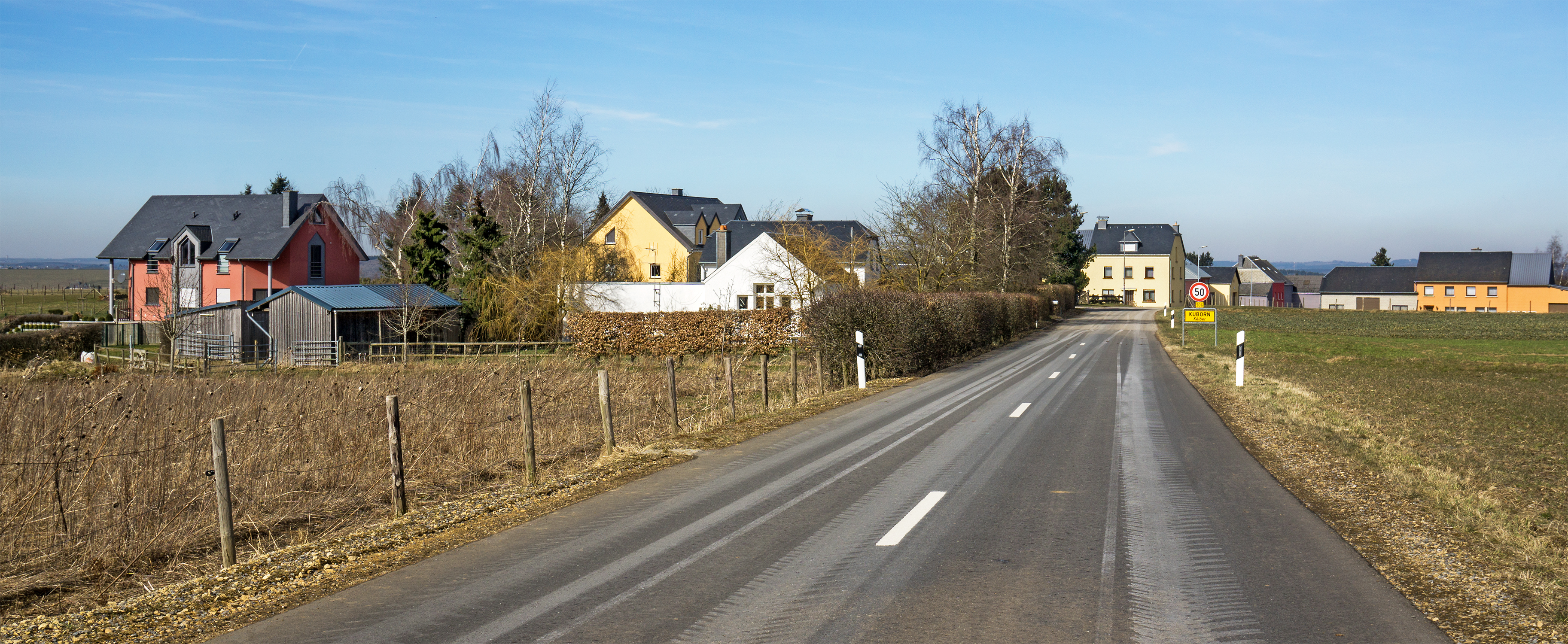 Road to Kuborn